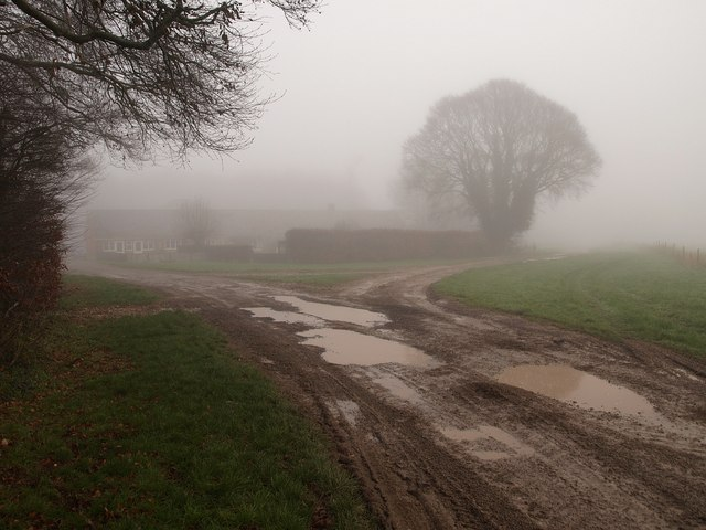 Fog at Druid's Head Farm A crossroads of byways; the one to Druid's Lodge heads past the tree on the right. The modern brick farmhouse is largely hidden in mist.